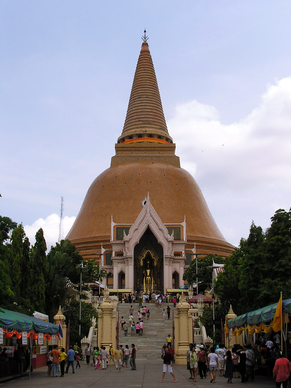 Phra Pathom Chedi at Wat Phra Pathom Chedi, Nakorn Pahom, Thailand